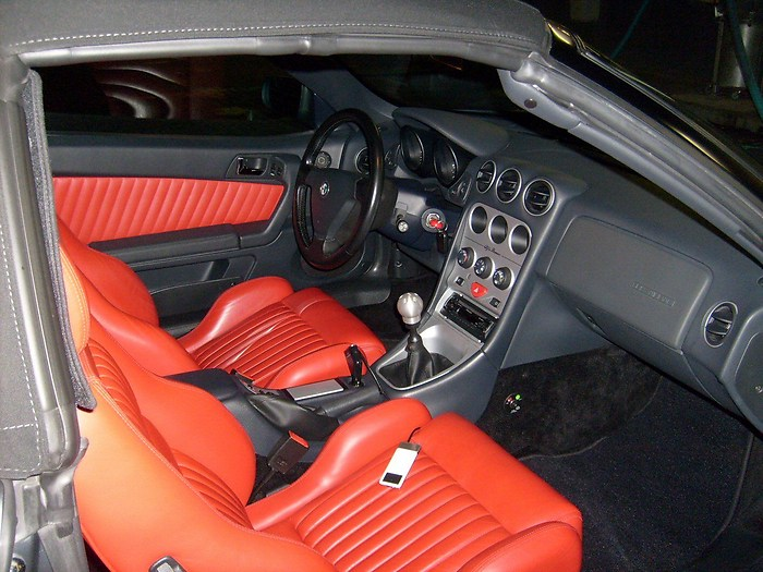 Spider interior with MOMO King S gearlever and Kensington radio iPod Nano connected.